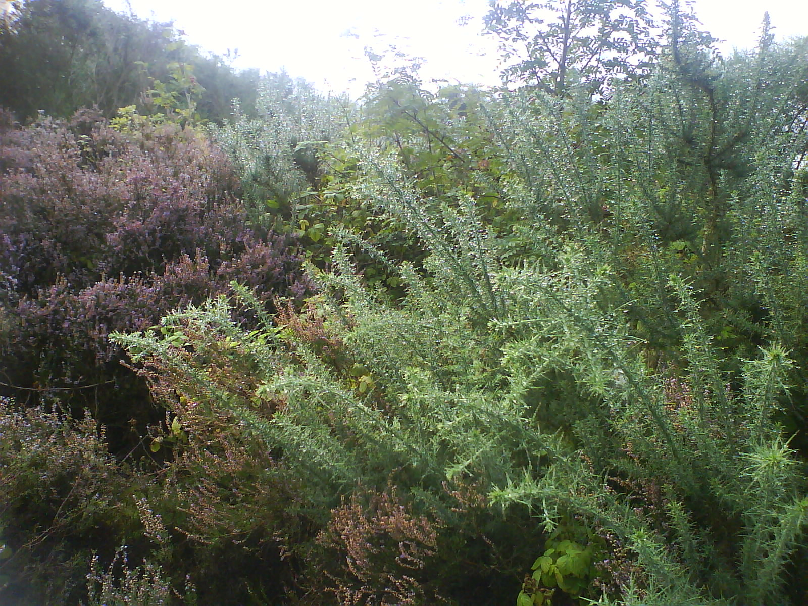 N.Ritchie